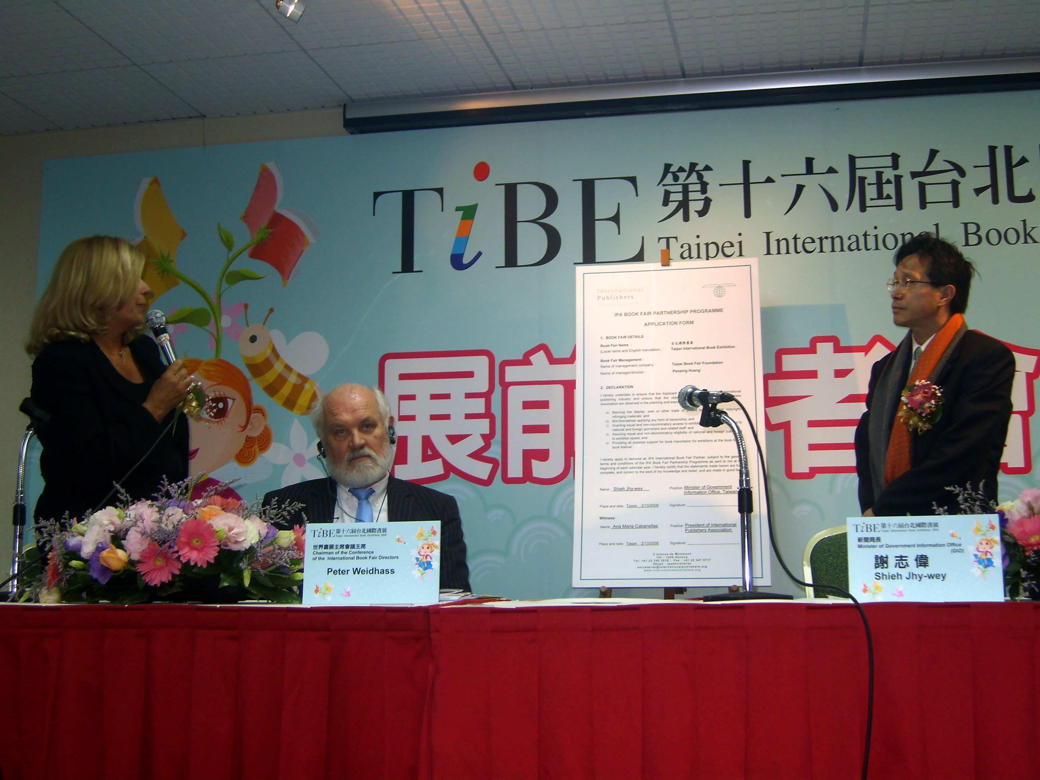 Press Conference of 2008 Taipei International Book Exhibition - Taipei Book Fair Foundation signed an contract with International Publishers Association.